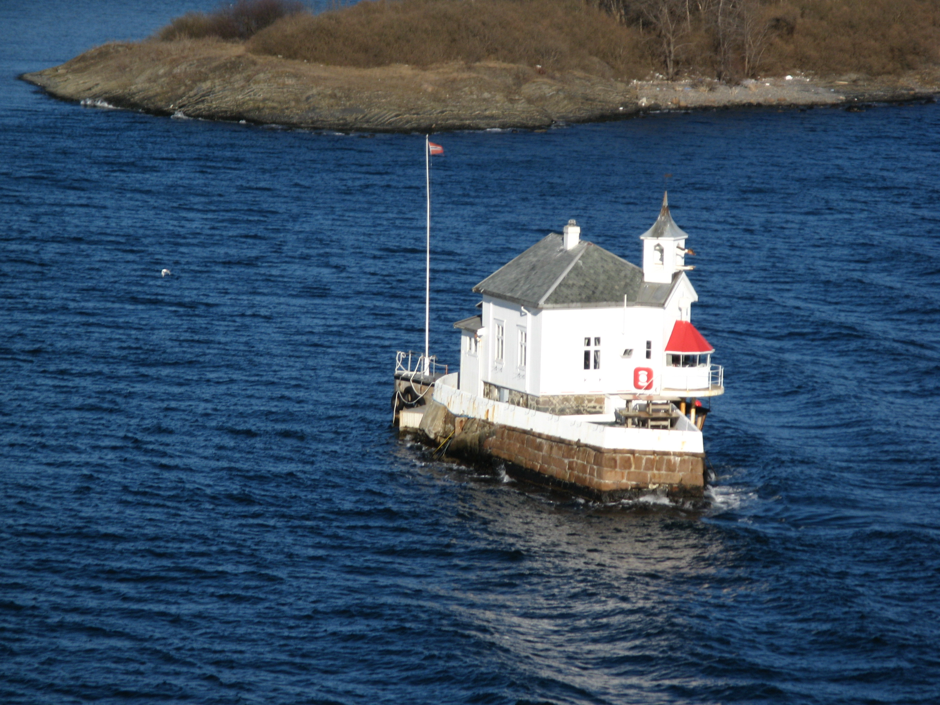 Lighthouse just off the Oslo Harbour